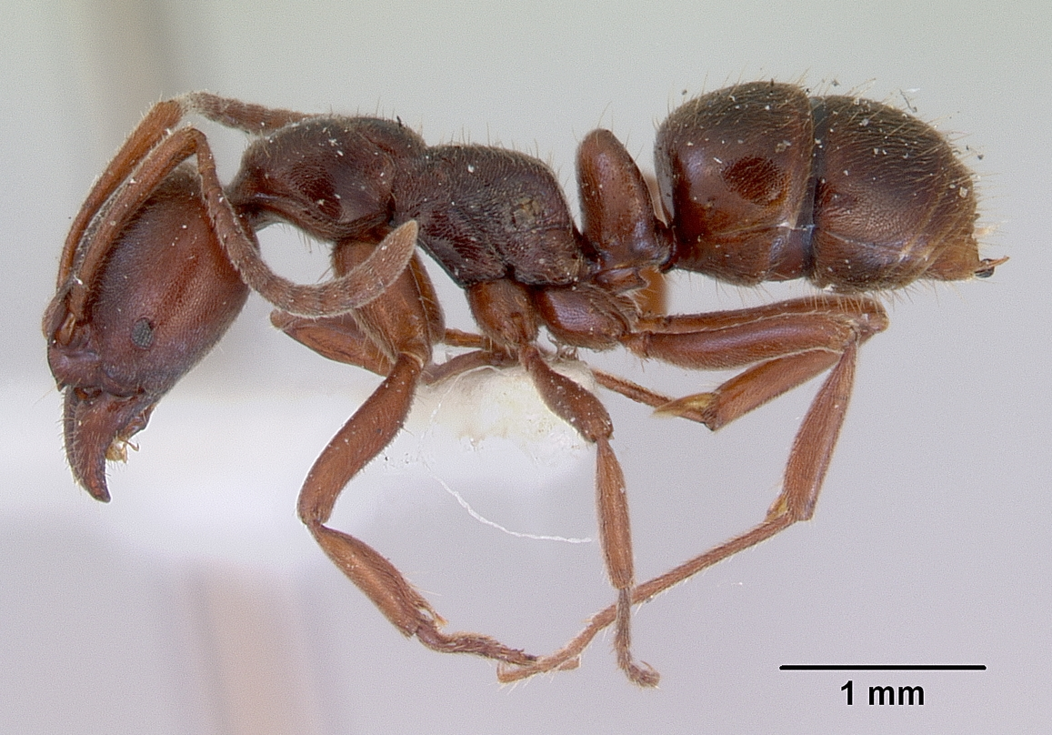 Profile view of ant Pachycondyla castanea specimen casent0172341.